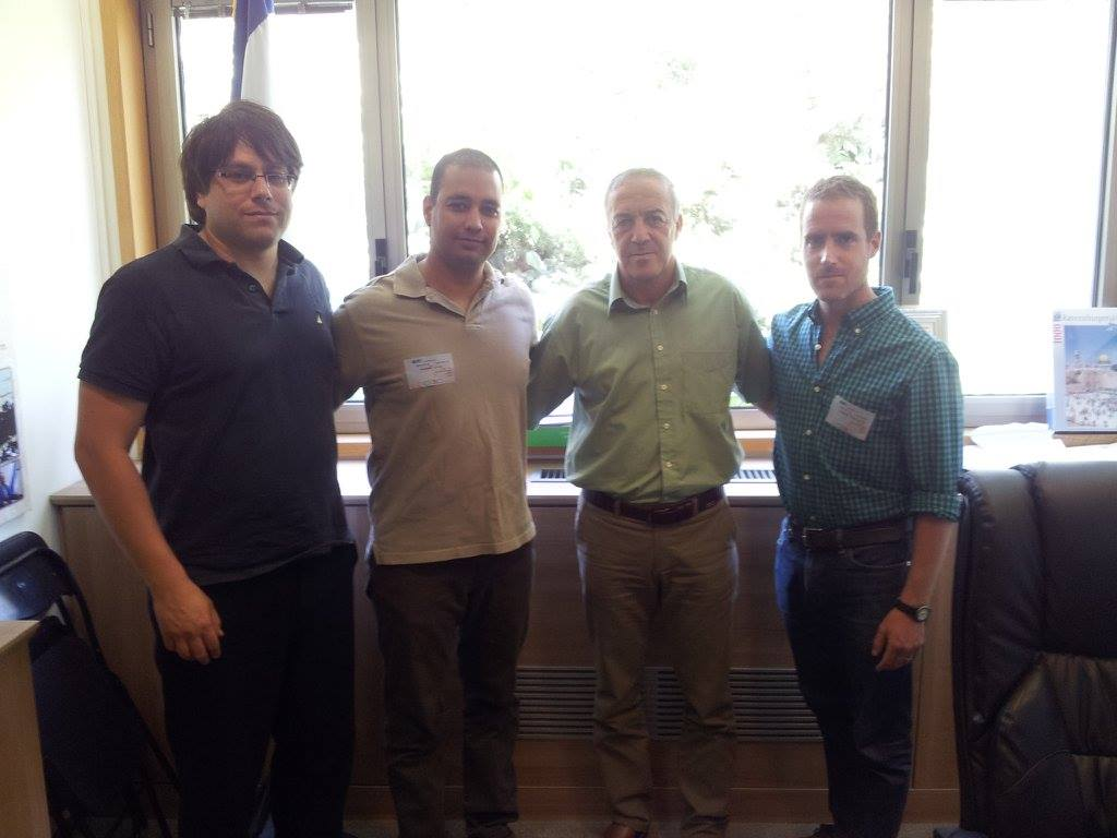 חברי פורום רתועת הביטחון מלחמה ללא שם במ]גשם עם ח"כ אכרם חסון בשנת 2016